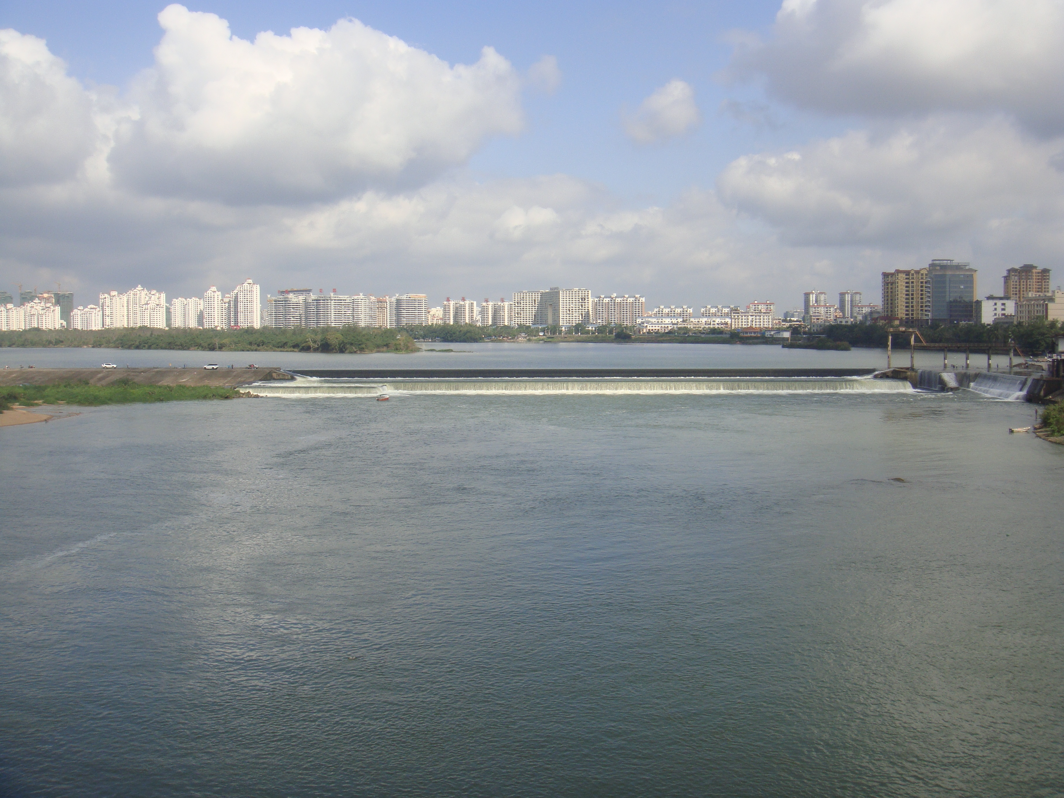 Wanquan River at Qionghai, Hainan. Photo taken from the bridge directly south that carries Aihua W Rd./Highway G223.